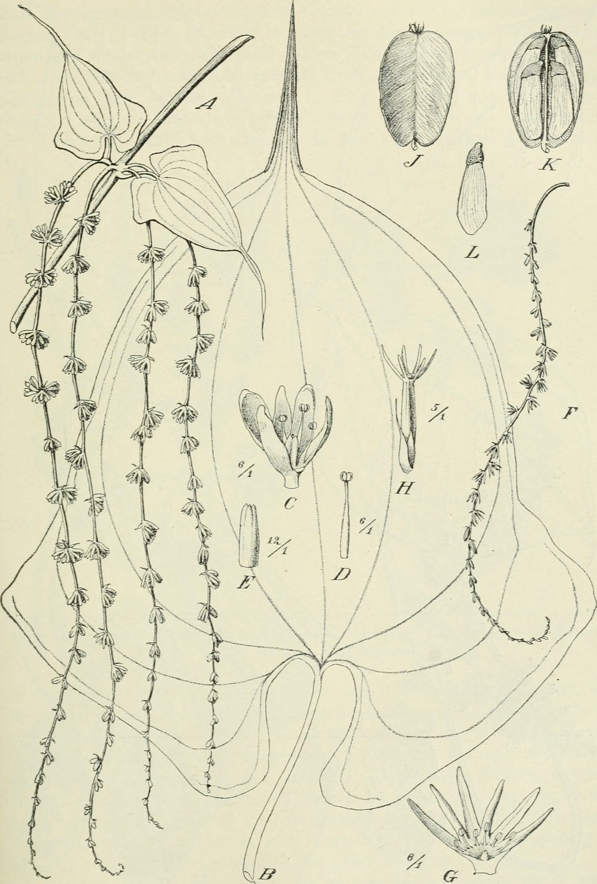 Title: Die Pflanzenwelt Afrikas, insbesondere seiner tropischen Gebiete : Grundzge der Pflanzenverbreitung im Afrika und die Charakterpflanzen Afrikas Year: 1910 (1910s) Authors: Engler, Adolf, 1844-1930 Subjects: Botany Publisher: Leipzig : W. Engelman Text Appearing Before Image: Liliiflorae. — Dioscoreaceae. 357 Text Appearing After Image: Fig. :53. A—E Dioscorea macroura Harms. F—L D. sativa L. — Original.